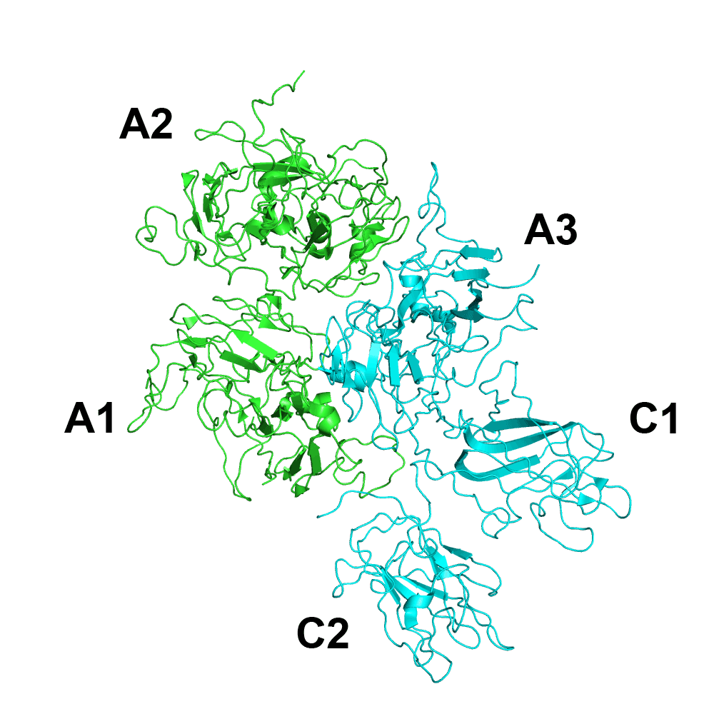 Rendering of B-domainless FVIII (PDB:2R7E) with PyMol.